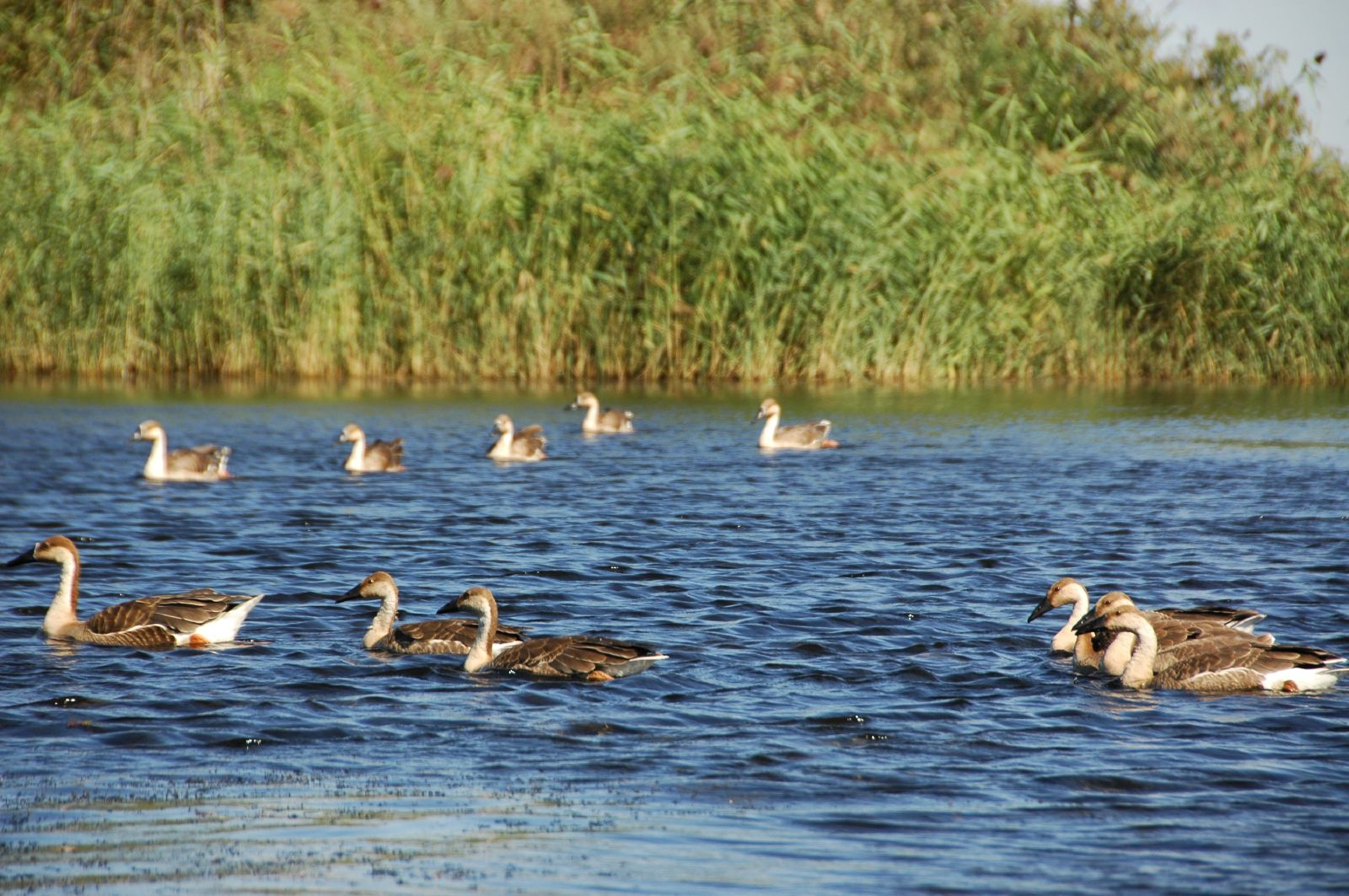 Wild Anser cygnoides, Zhalong Nature Preserve, Heilongjiang, China